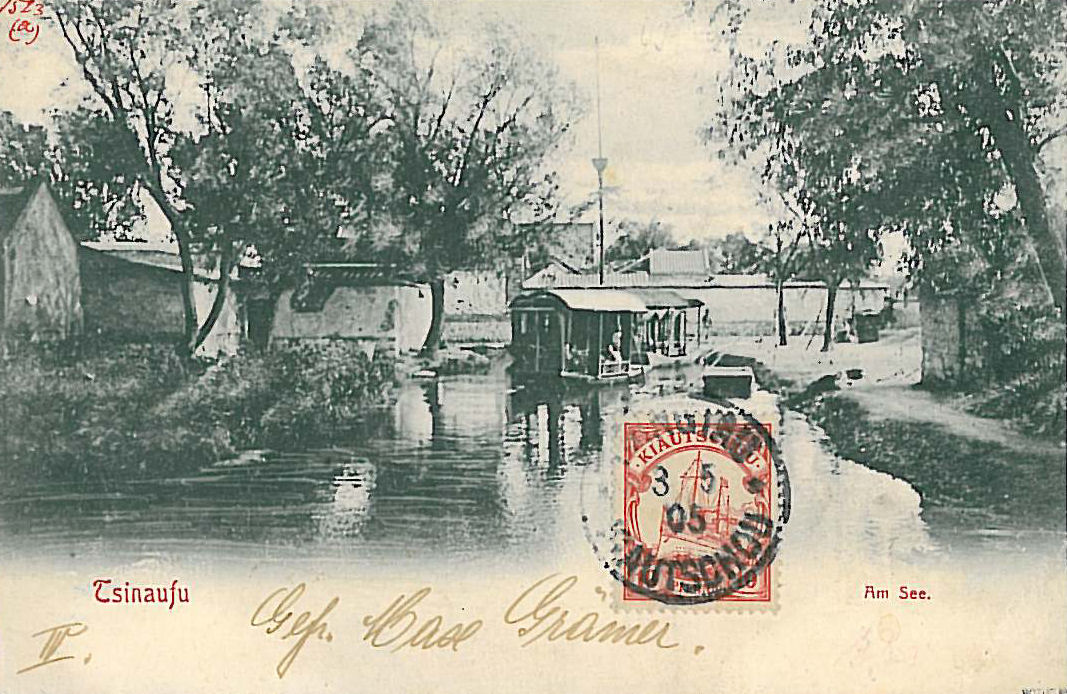 Historical postcard of China